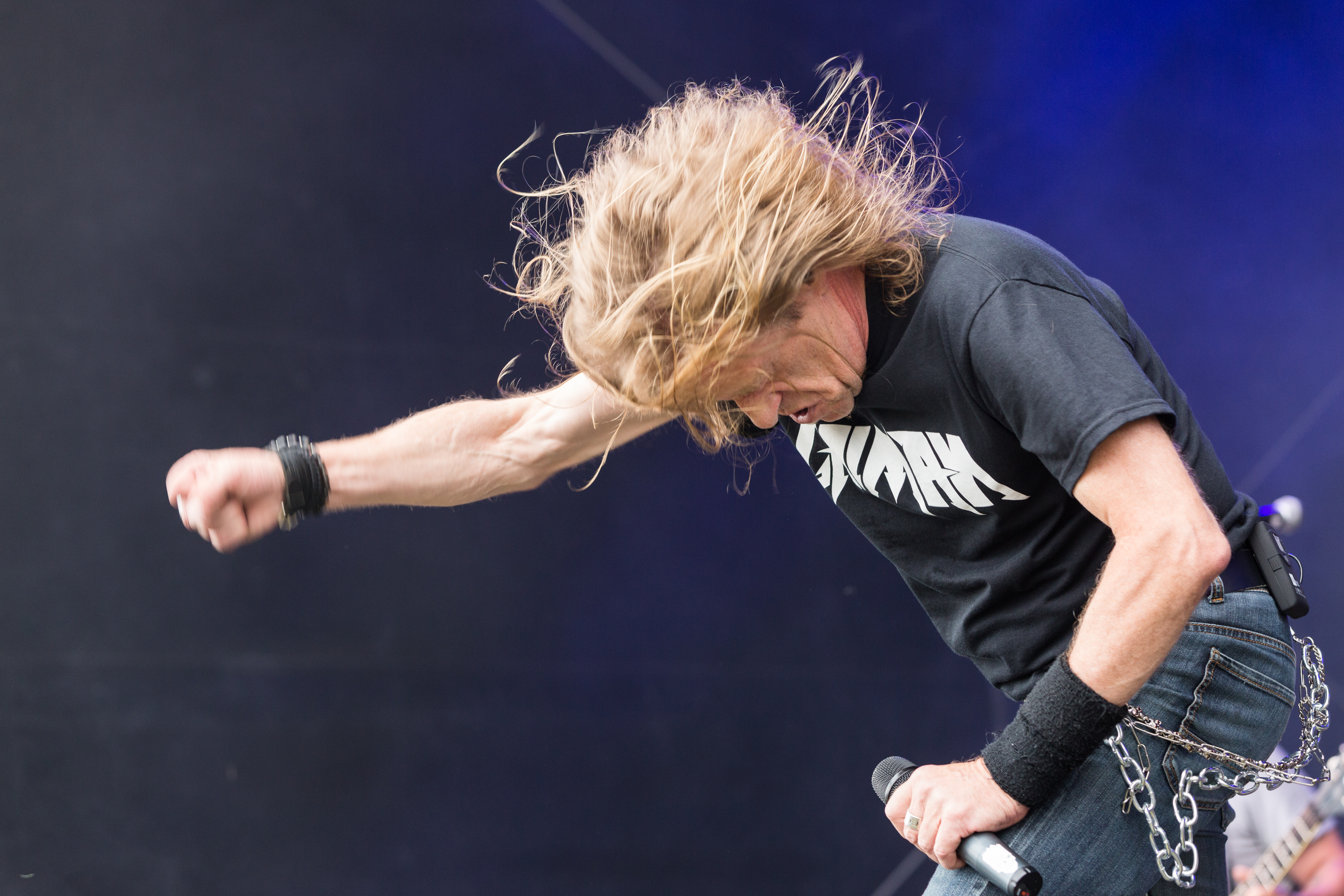 The German heavy metal band Macbeth at the Metal Frenzy 2017 in Gardelegen/Germany.